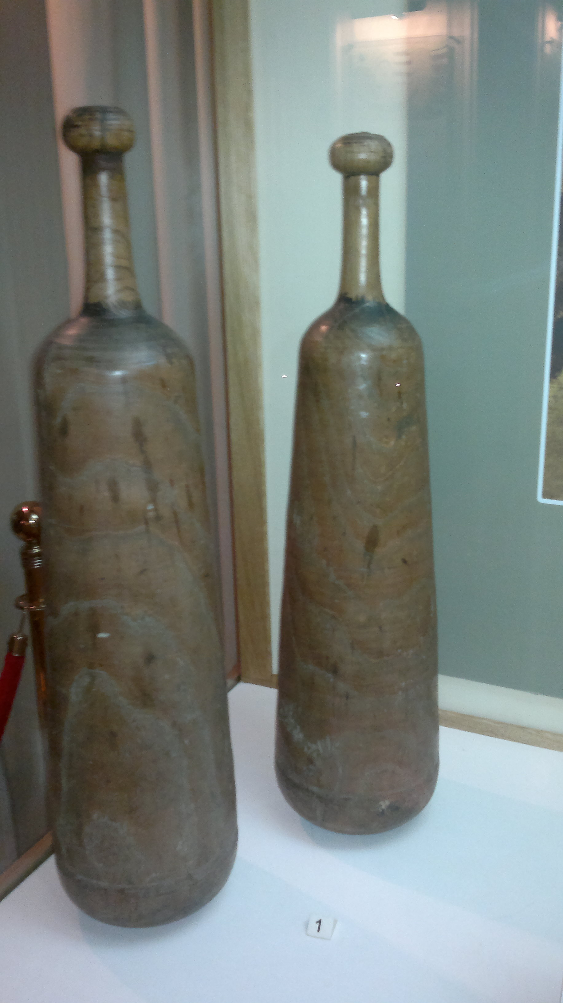 Maces. Middle Ages. Museum of History of Azerbaijan